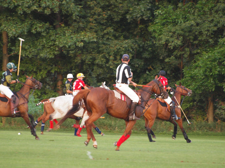 Umpire at a local polo match in Ada, Michigan. The umpire is holding a ball pick-up stick and has leather ball holders strapped across the withers.